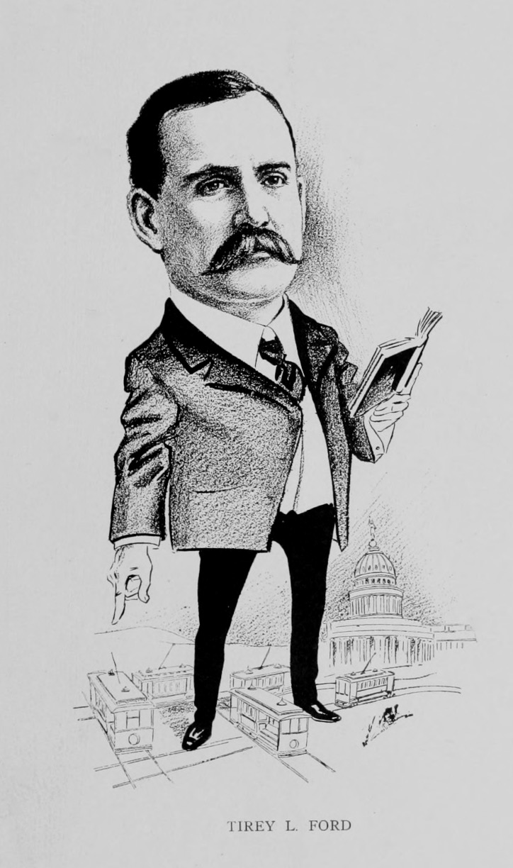 This is a clipping from E.A. Thompson "As We See Em", copyright in 1906. The clipping shows the person the article is about, Tirey L. Ford.